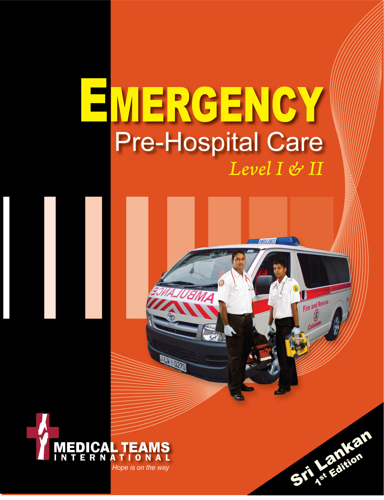 Cover artwork of the 1st edition of the Sri Lanka Emergency Medical Technician - Basic textbook.